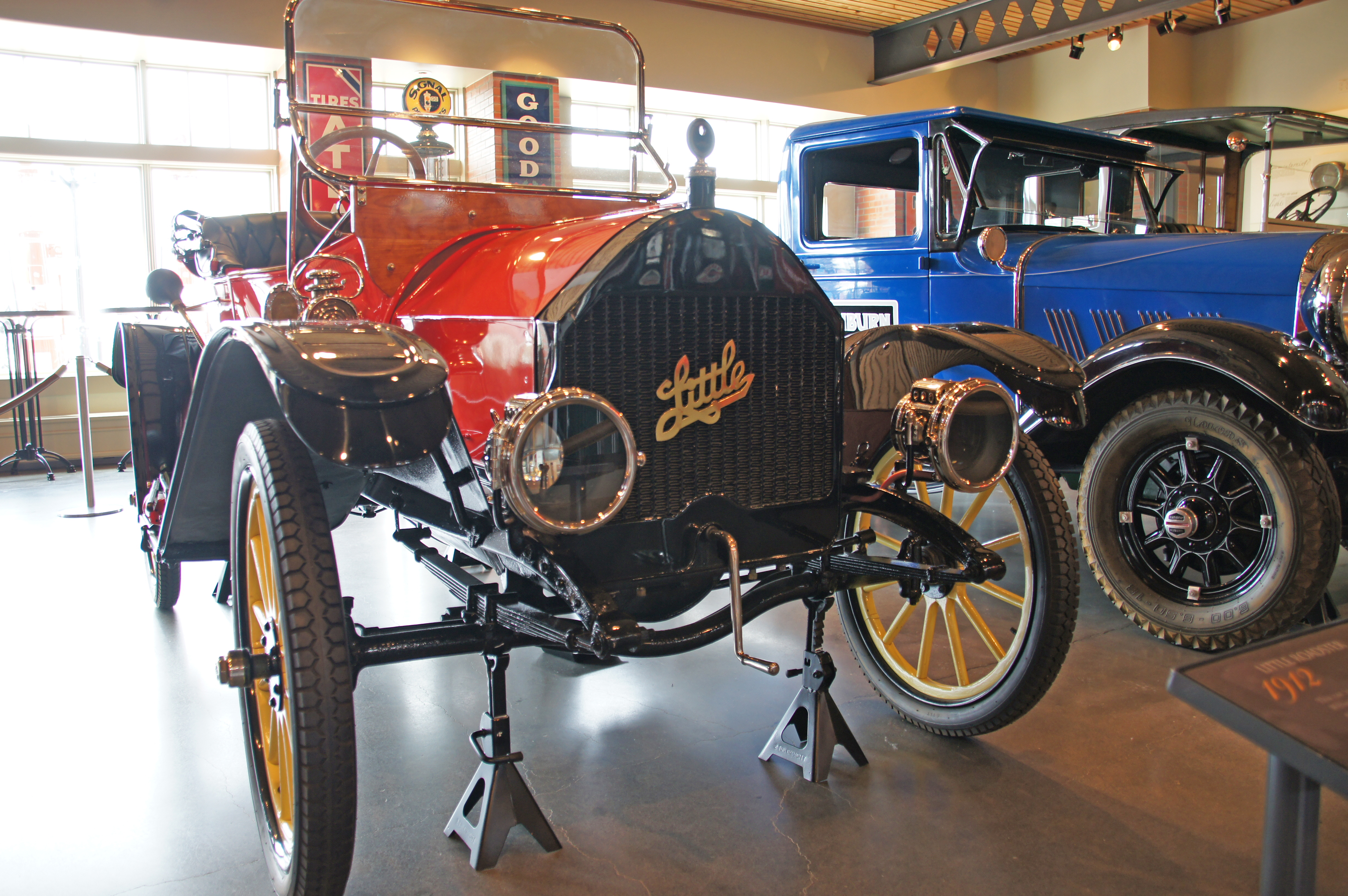 The Little was an automobile built in Flint, Michigan by the Little Motor Car Company from 1911-13. The Little first was available as a two-seater with a four-cylinder 20 hp engine, and had a wheelbase of 7 ft 7 in (2,310 mm) . In 1912 a 3.6 L six-cylinder L-head engine was available in a later model that had a larger chassis. This was phased out in May, 1913 as it was too close in size and price to the Chevrolet Six. Durant merged the Little Company and Chevrolet in 1913, gave the Chevrolet name to the Little car and moved manufacturing from the Detroit plant to Flint.